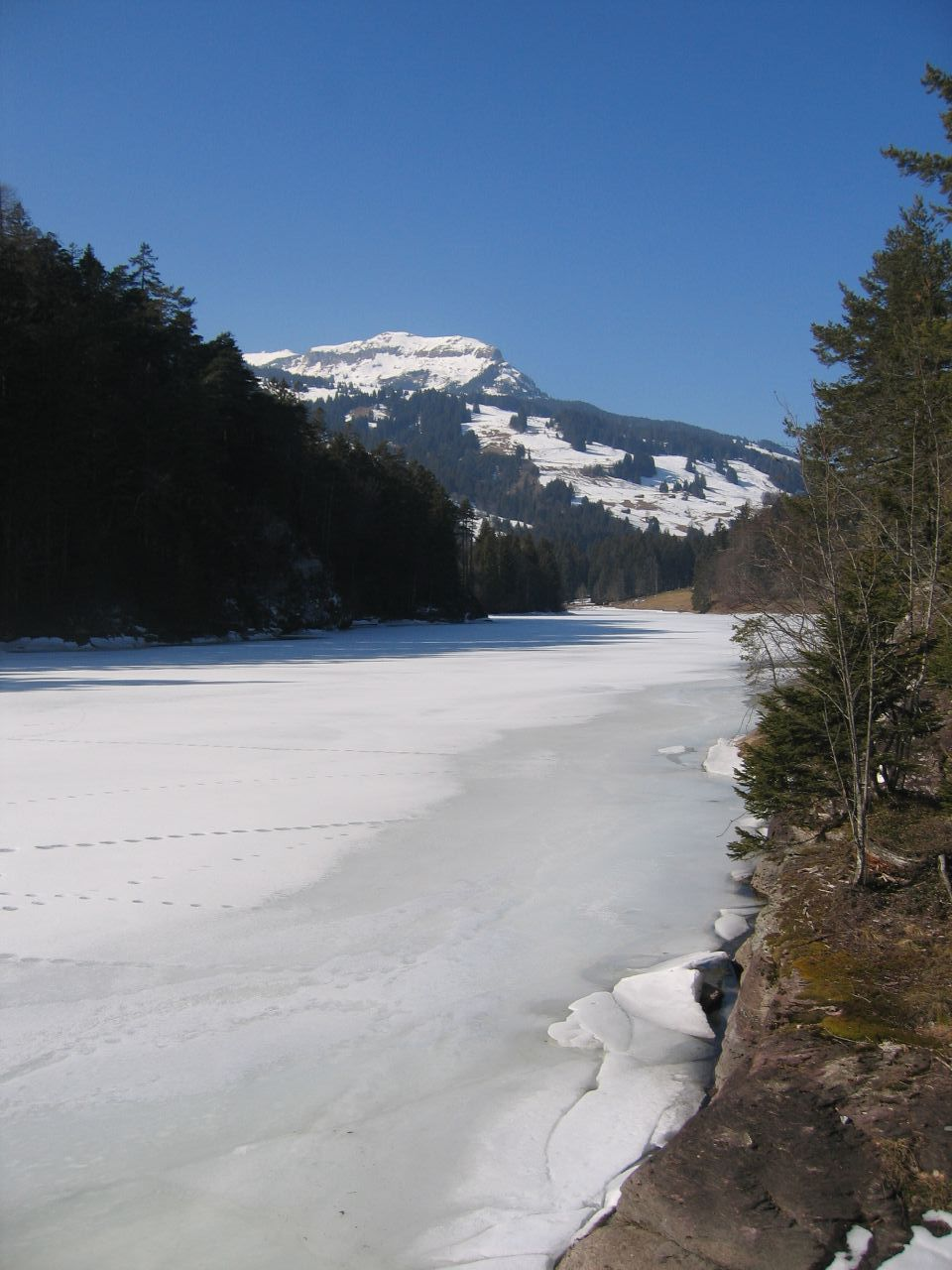 Chapfensee, the lake above Mels frozen